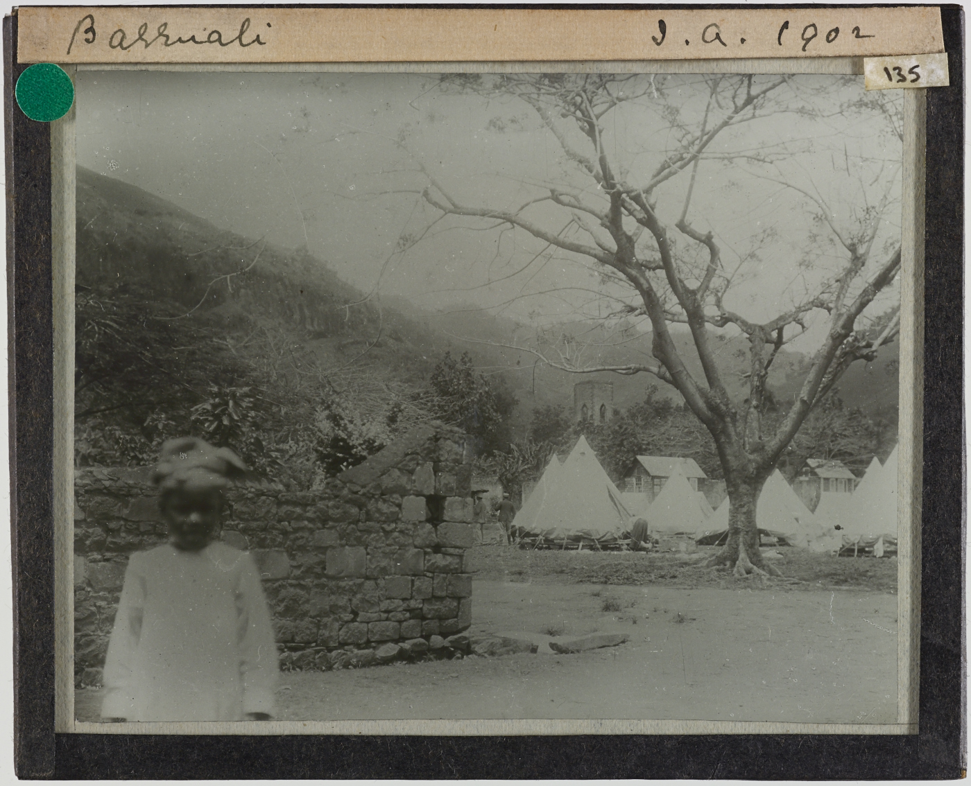 Group of tents and huts with hill behind. This is probably the camp for the refugees made homeless or evacuated during the 1902 eruptions. Small child in the foreground.